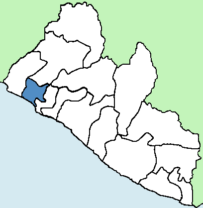 Map showing location of Bomi County in Liberia